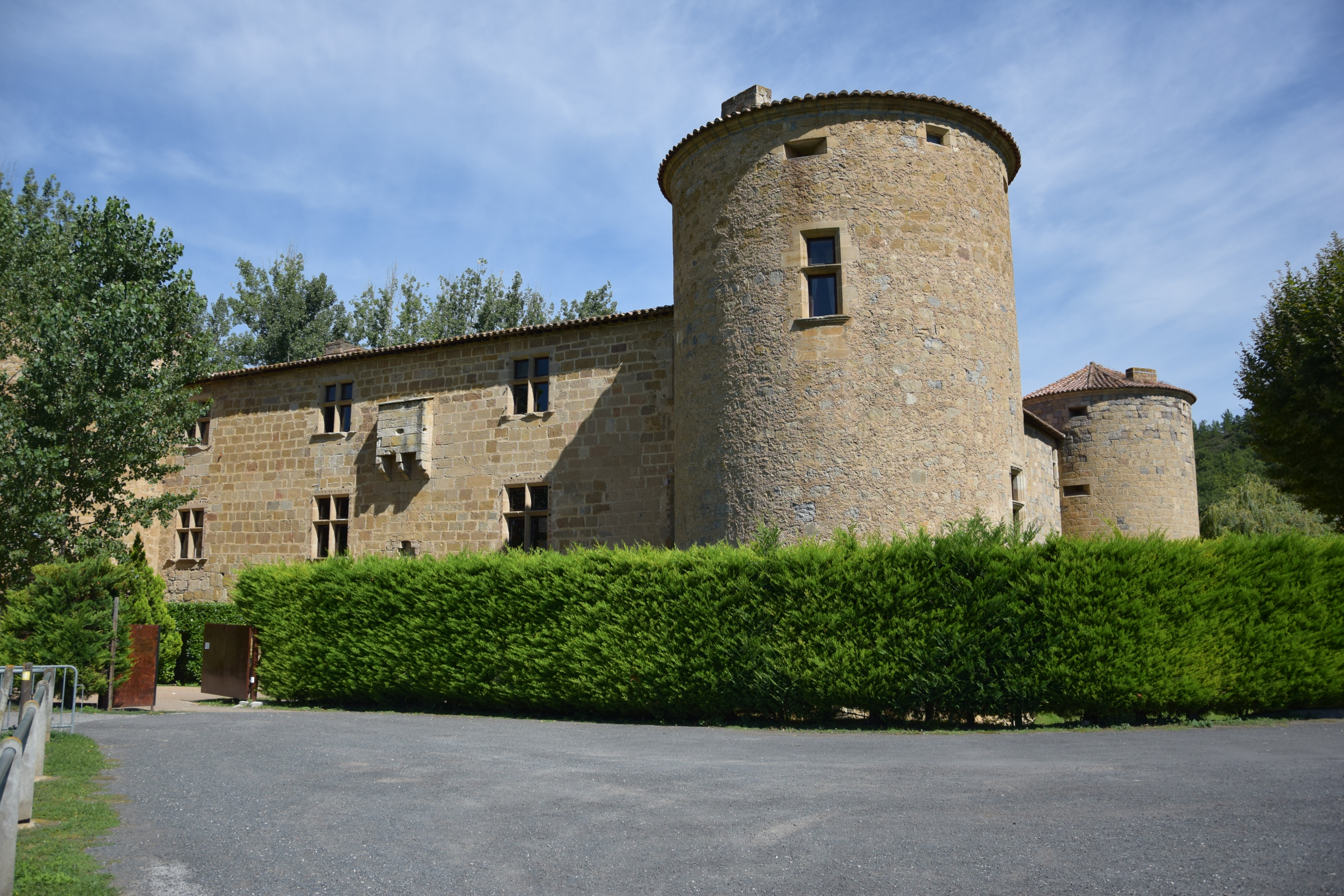 Castle of Couiza